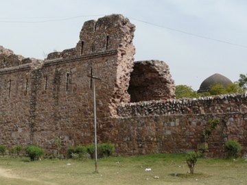 Walls of historic Siri Fort in Delhi